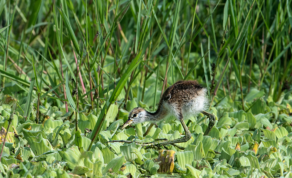 Dhanauri Wetland, Greater Noida, UP, India